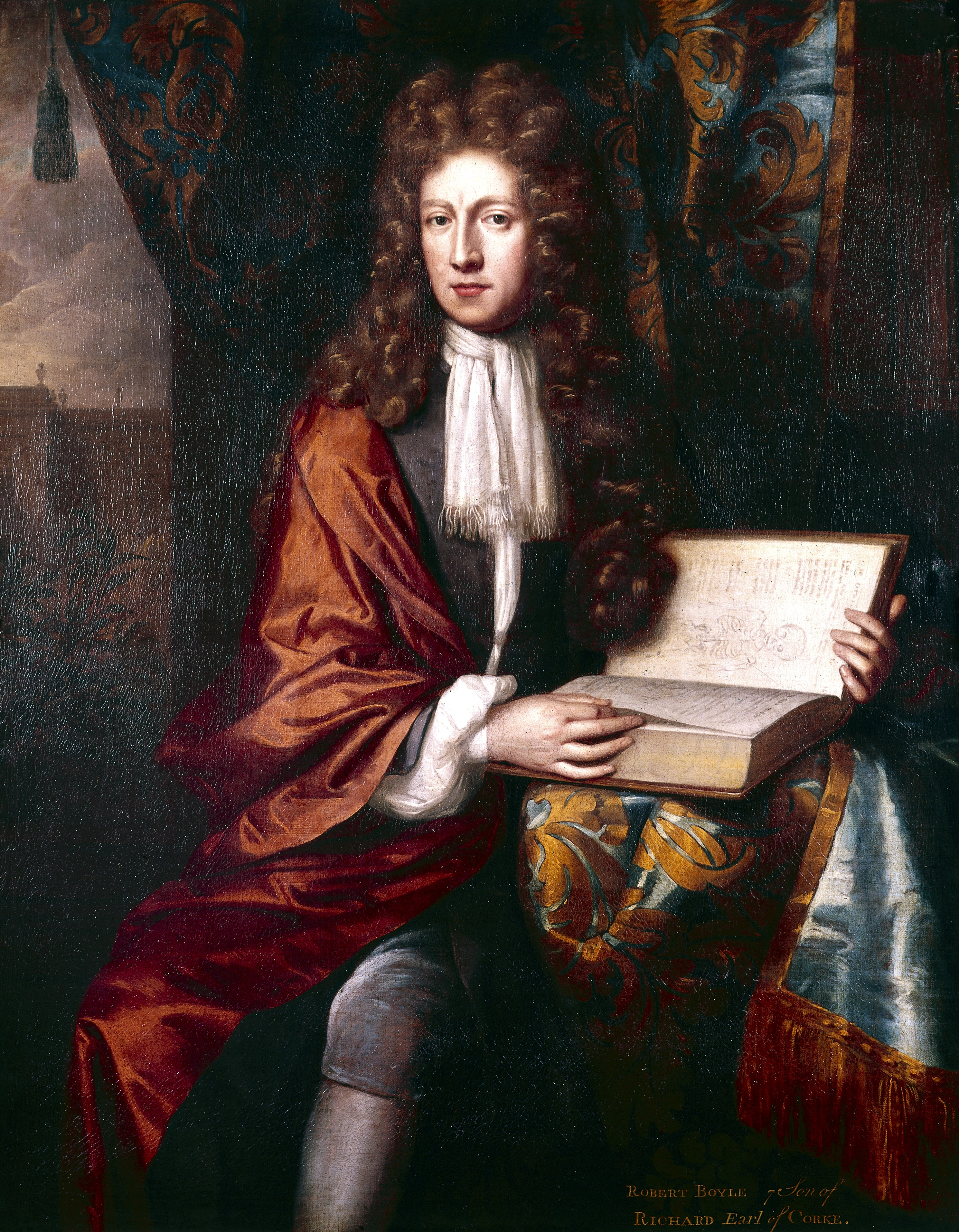 Portrait of The Honourable Robert Boyle (1627 - 1691), Irish natural philosopher Iconographic Collections Keywords: Kerseboom; Robert Boyle